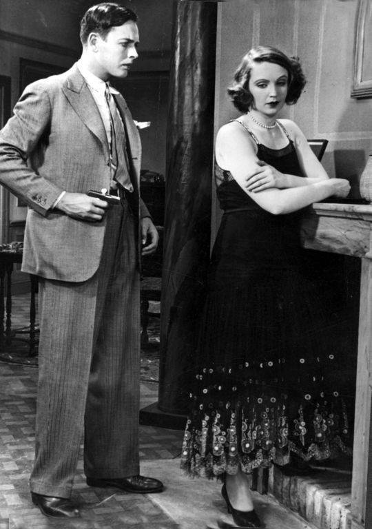 Inga Tidblad with her husband Håkan Westergren in the first Swedish-produced talkie, För hennes skull (1930), which premiered in August 1930 and was directed by the German playwright Paul Merzbach. The film was shot in Råsunda and decor was designed by Isaac Grünewald.